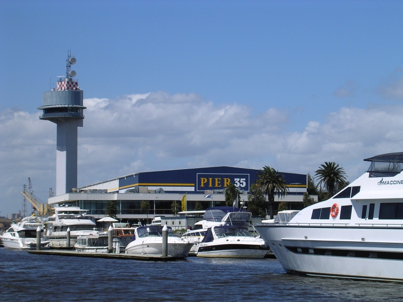 d'Albora Marinas Pier 35 marina. Fisherman's Bend. Port Melbourne, Victoria.